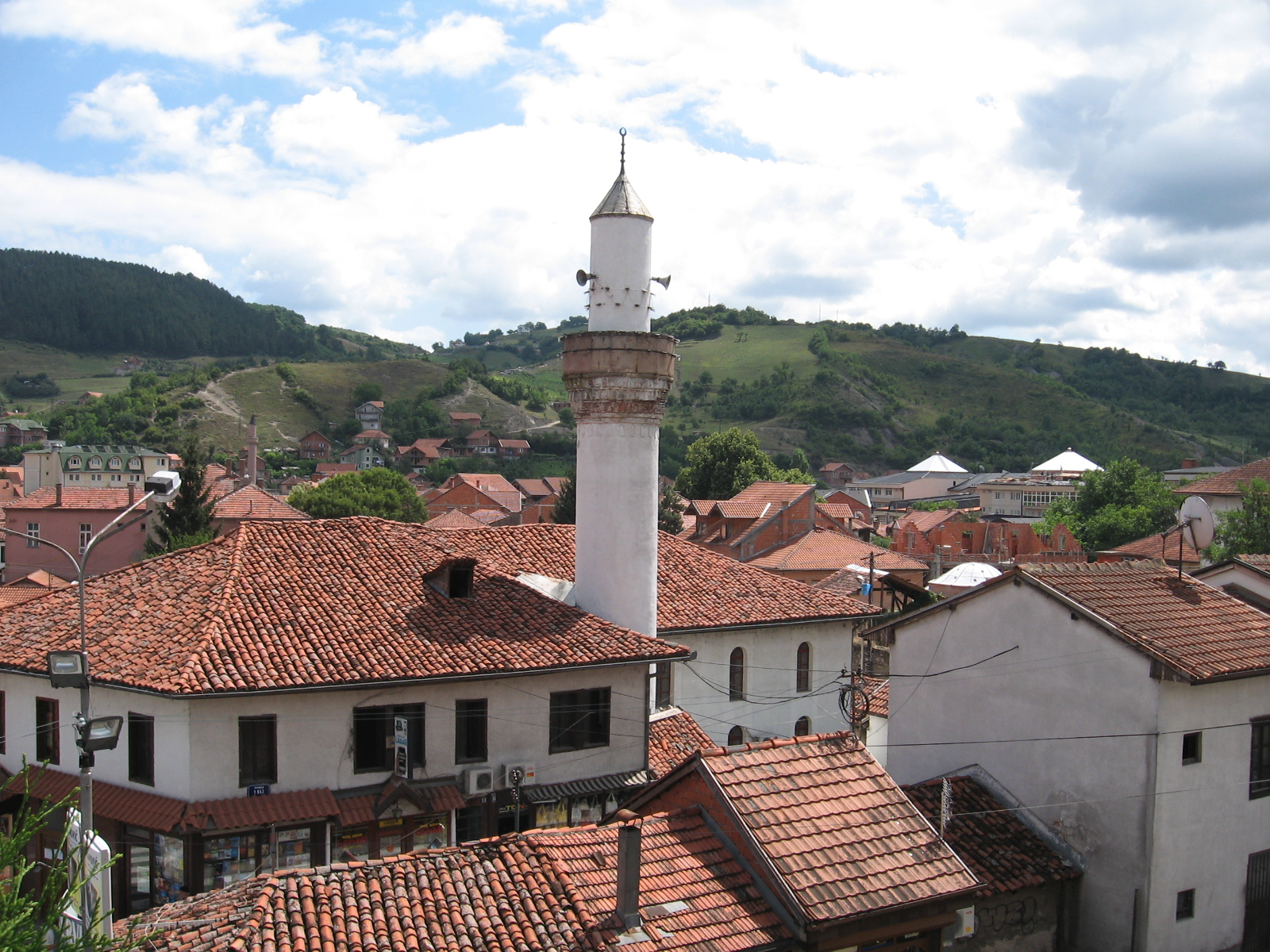 Downtown of Novi Pazar